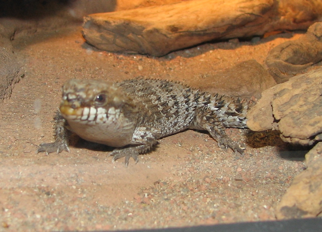 Pygmy Spiny Tailed Skink - Egernia depressa - Taken at the Louisville Zoo (Kentucky)